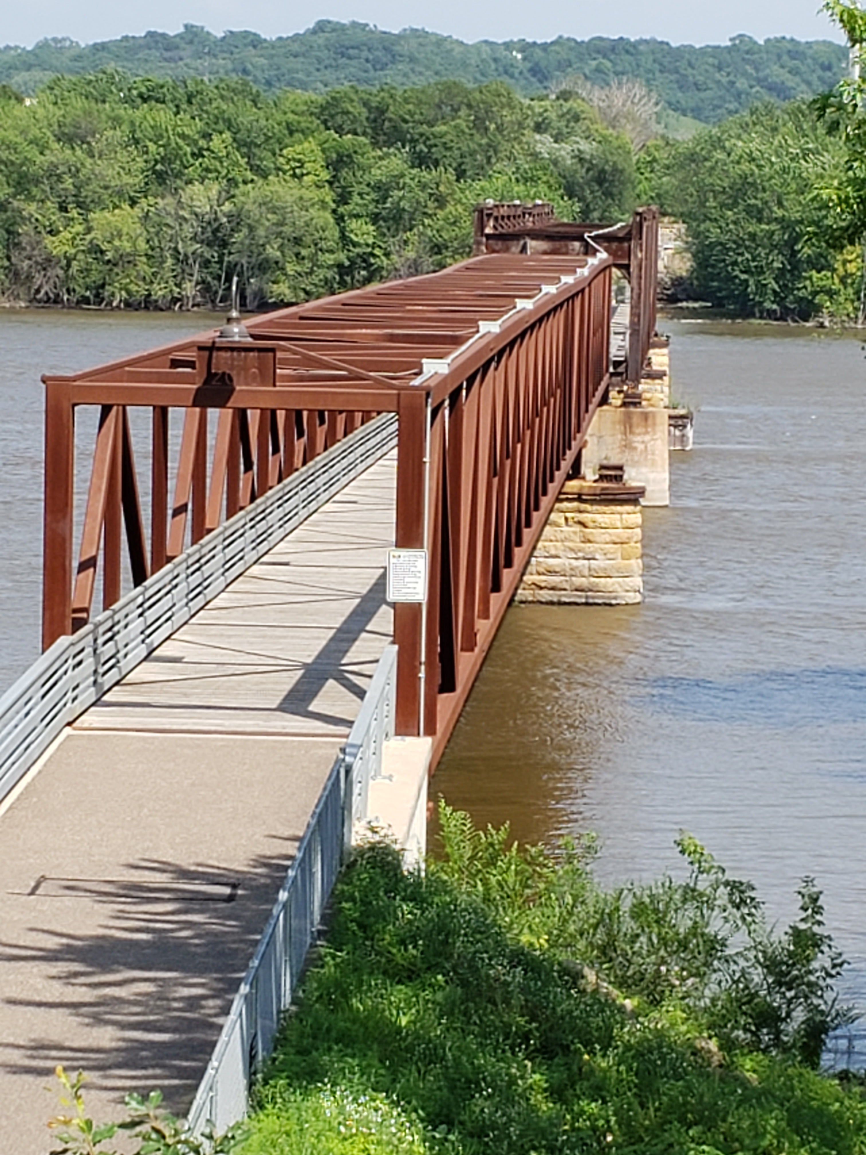 Rock Island Swing Bridge: Built in 1894, the double-decker swing bridge spanned the Mississippi River between Inver Grove Heights and St. Paul Park. Closed to rail traffic in 1980 and to road traffic in 1999